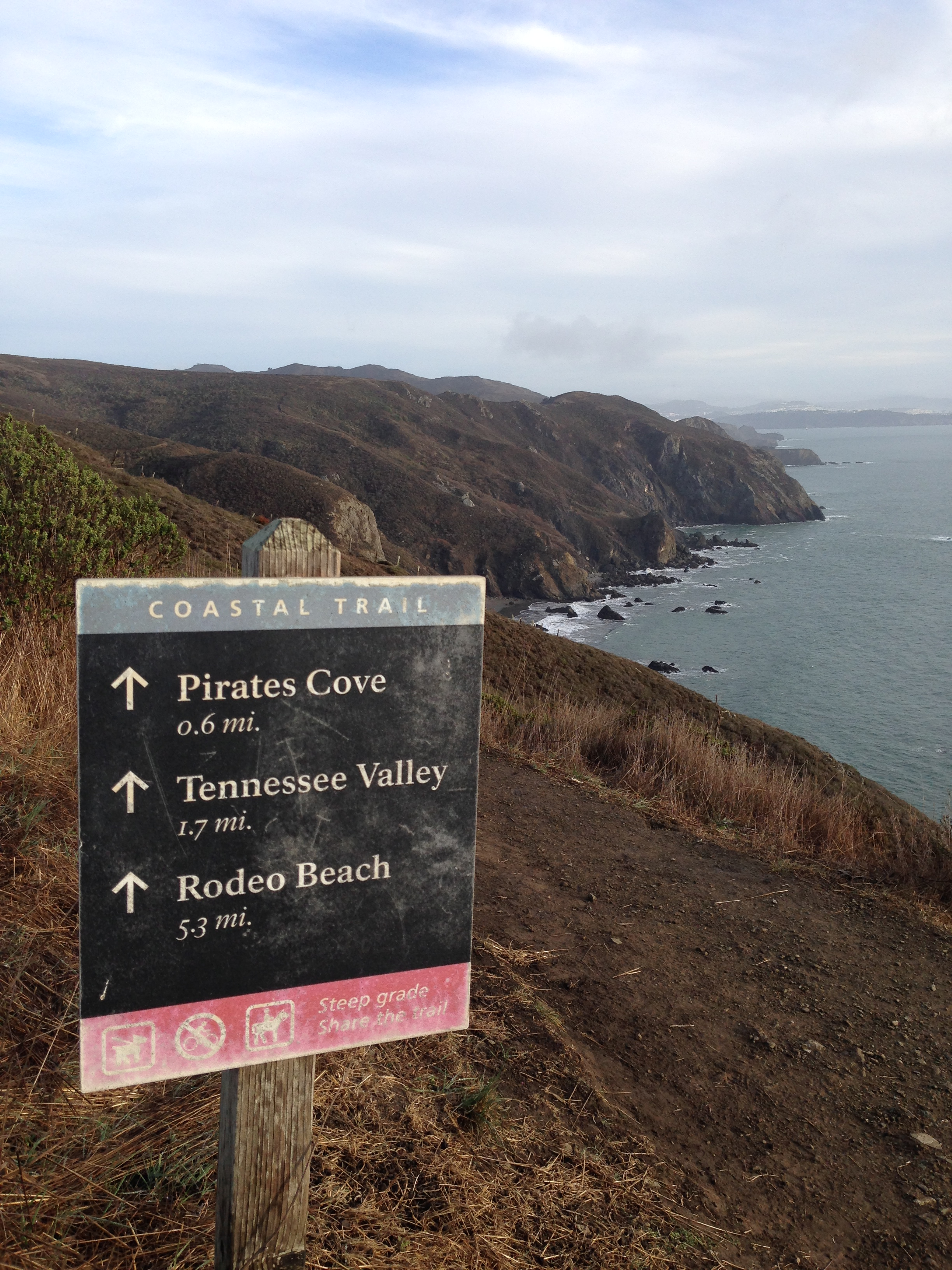 Sign on the California Coastal Trail in the Marin Headlands (GGNRA), south of Muir Beach.